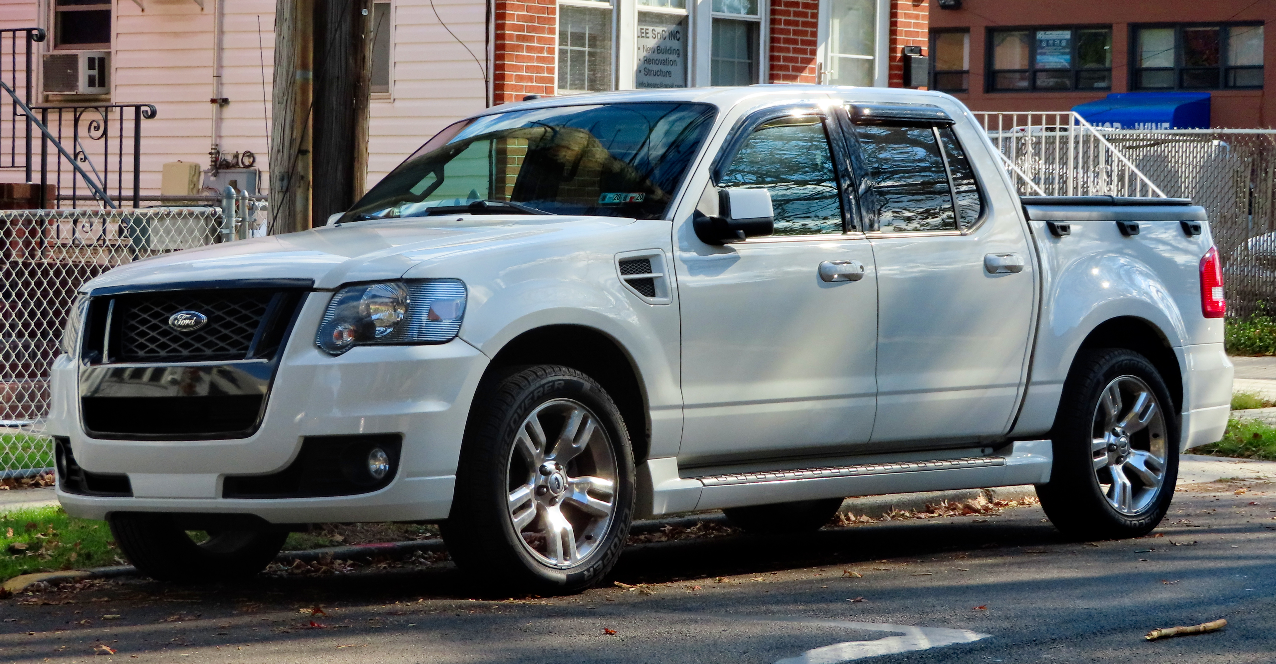 A 2009 Ford Explorer Sport Trac Adrenalin photographed in Bayside, Queens, New York, USA